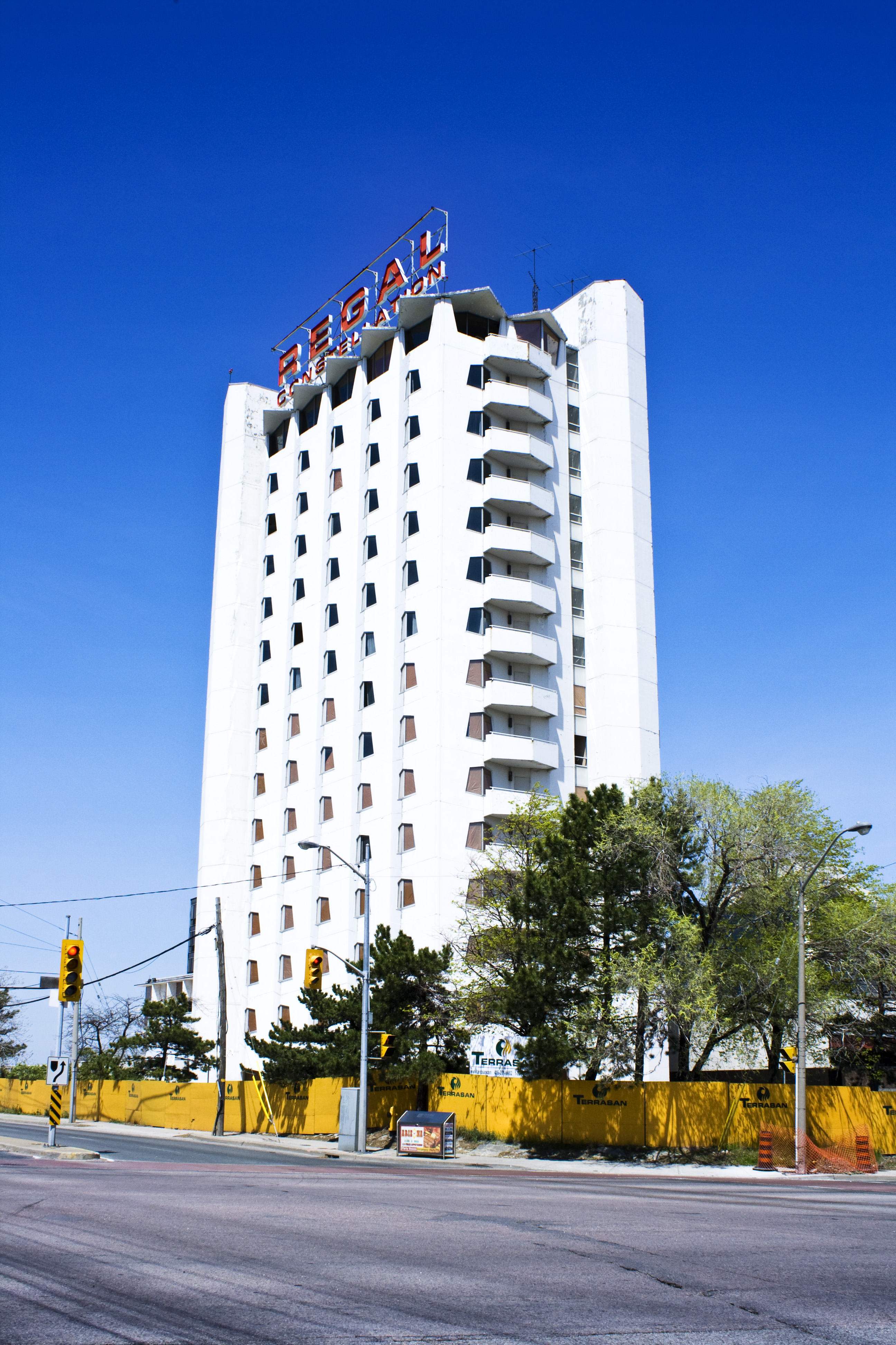 A picture of the Regal Constellation Hotel's west tower near Pearson International Airport in Toronto, Ontario. Picture taken May 13, 2009. The Hotel is currently closed.